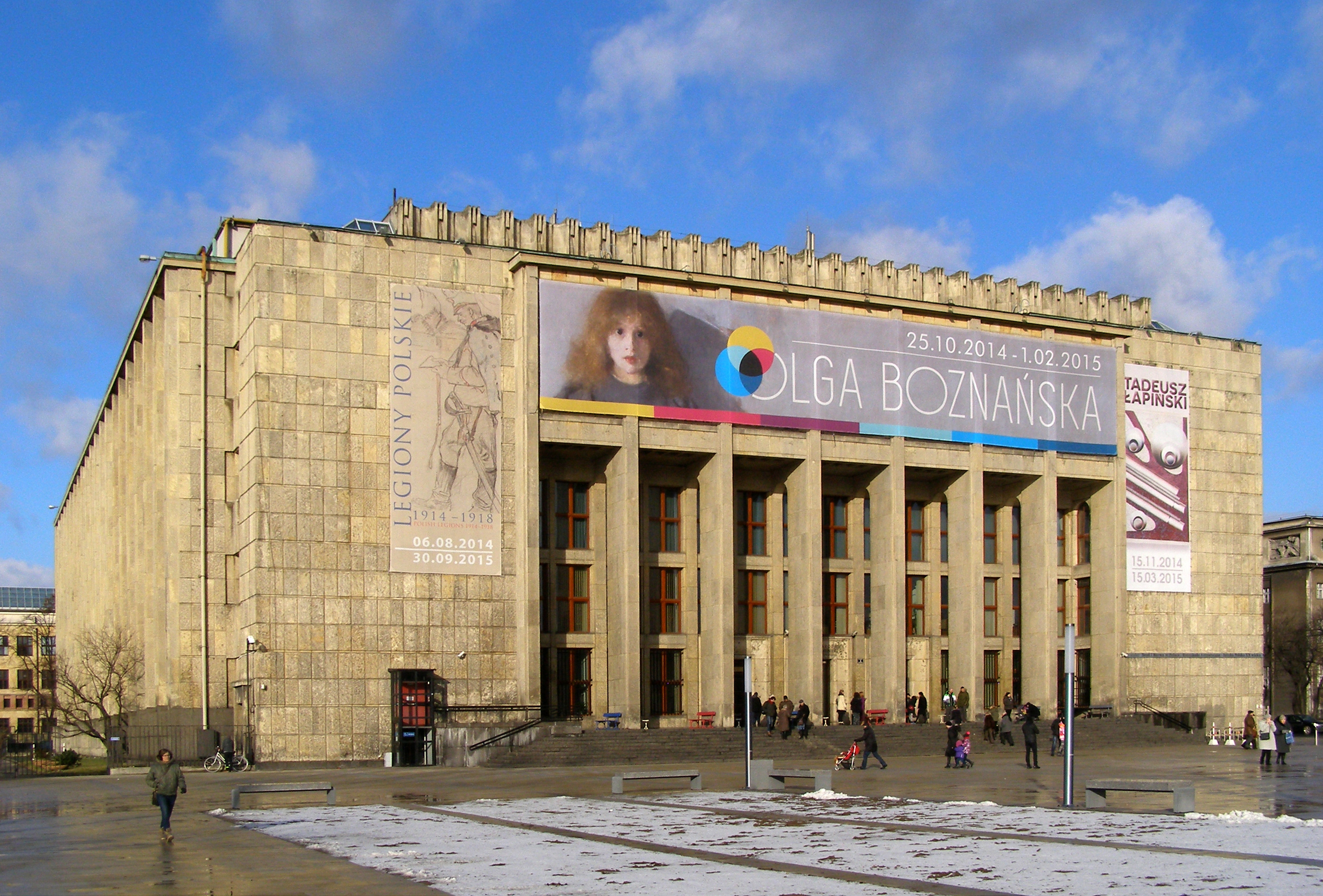 Kraków - building of the National Museum